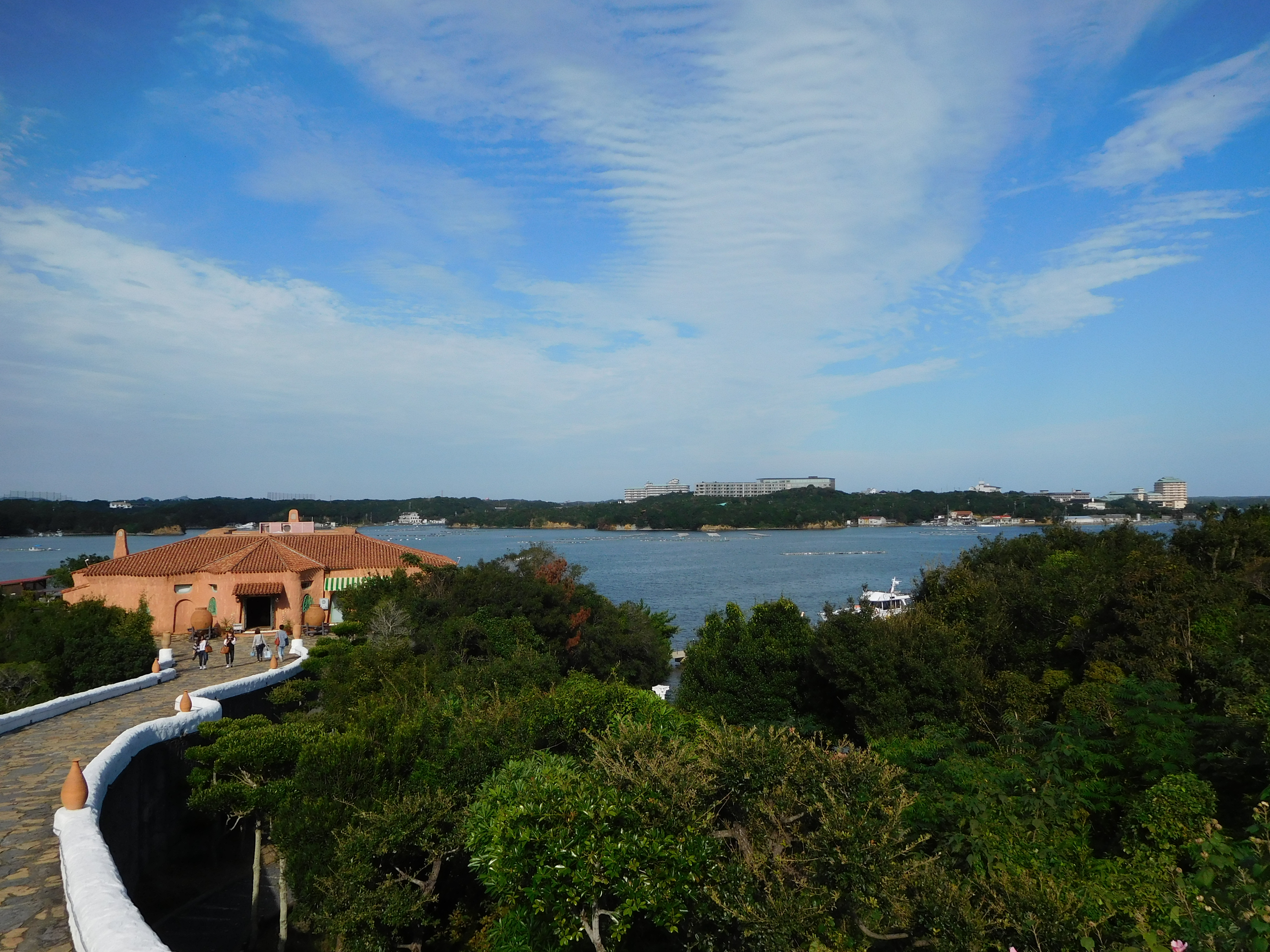 This is the restaurant RIAS in Shima Mediterranean Village. You can see Kashikojima in the rear of the image.